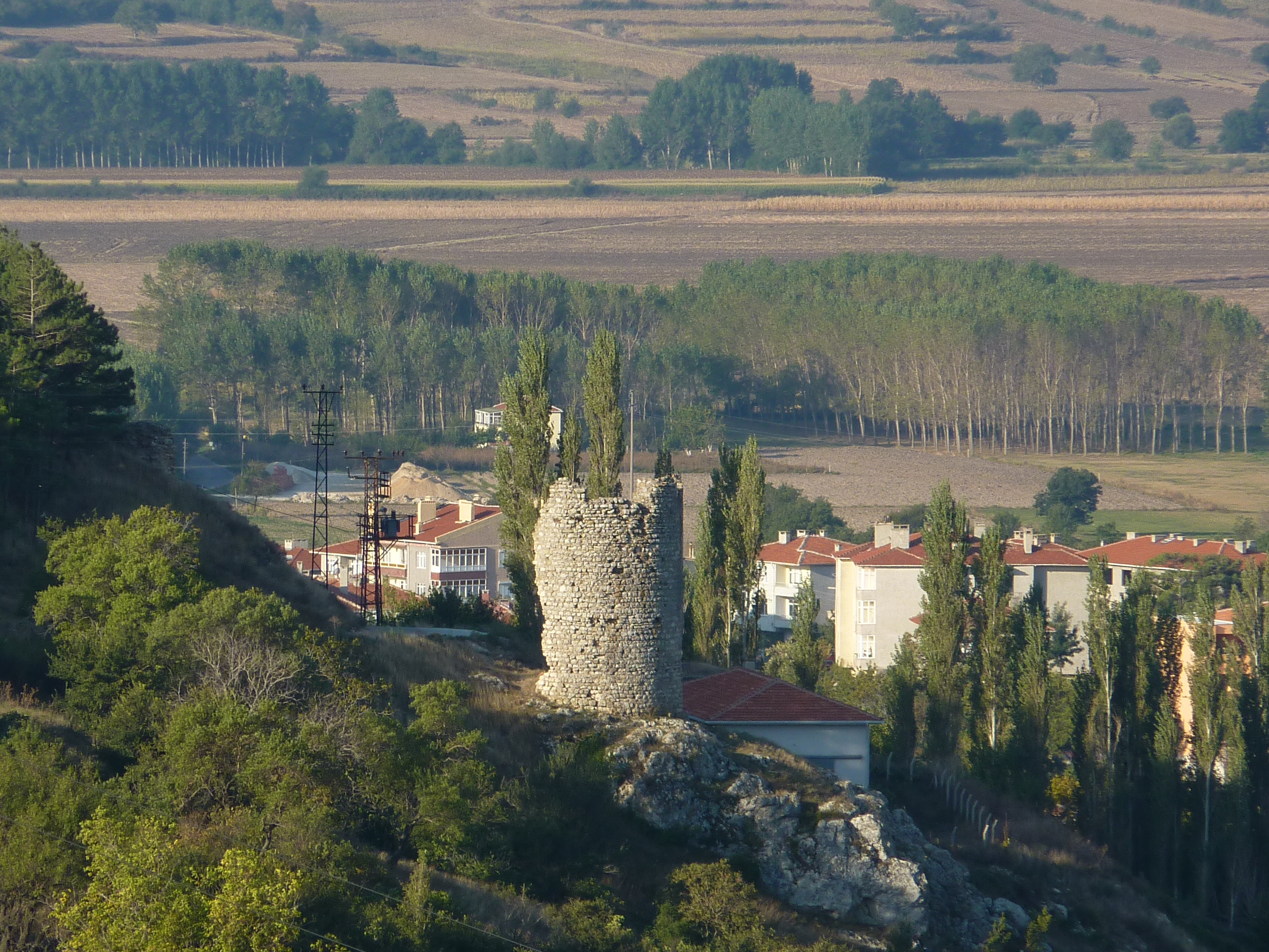 Remainders of the Byzantine city wall of Vize, Turkey (not much more than a single tower, and small pieces of the wall nearby), located on a forested hill north of the modern downtown